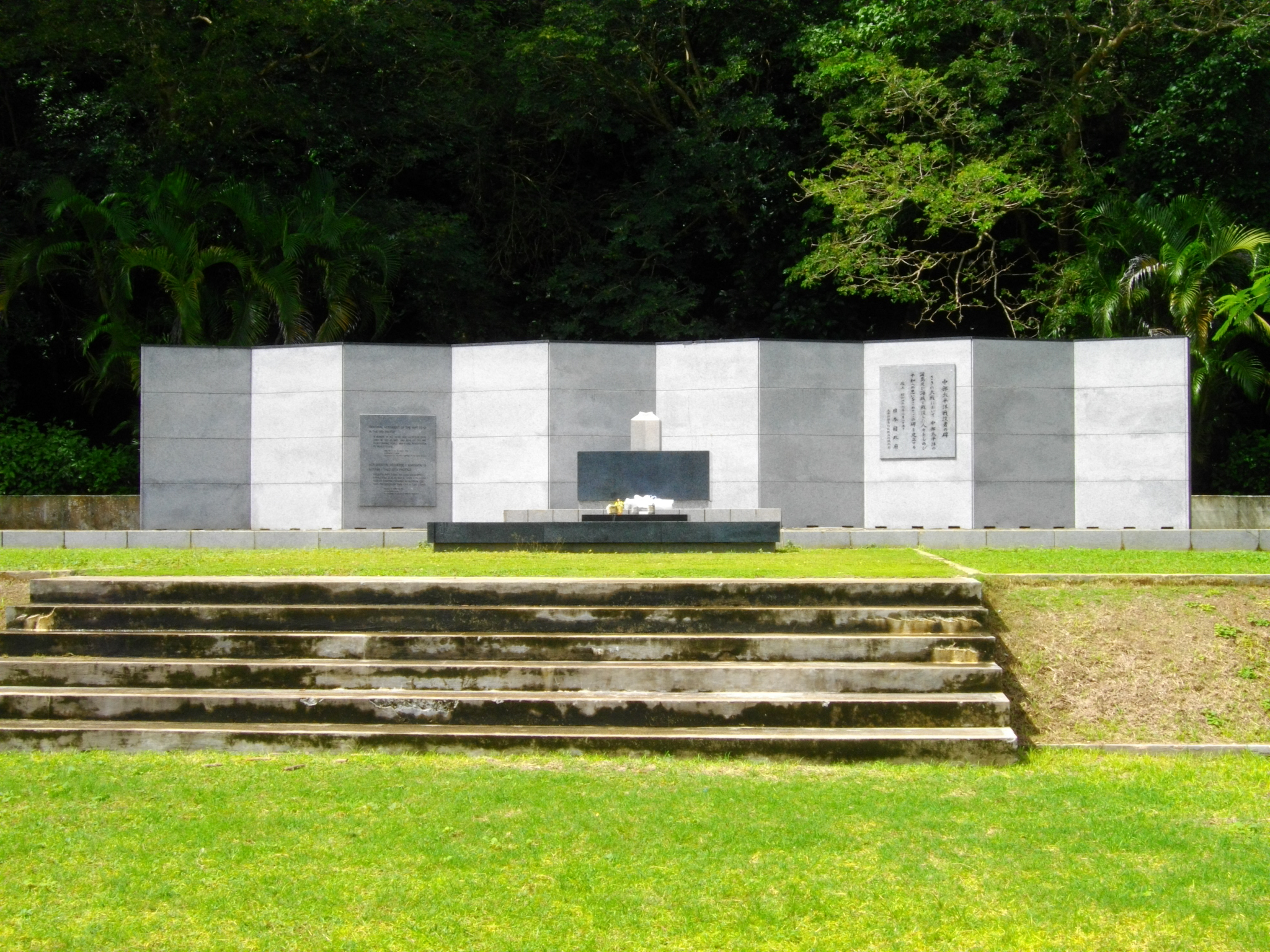 Monument of the War Dead in the Mid-Pacific